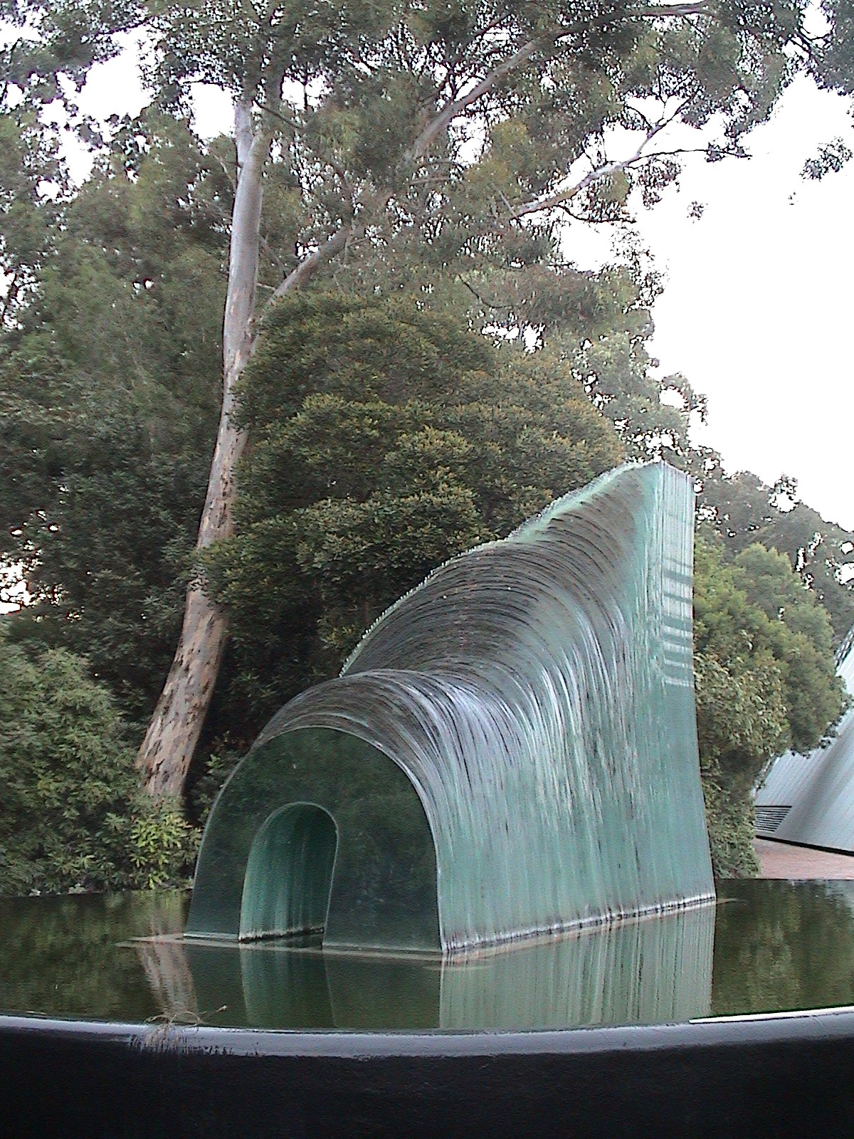 Cascade, a glass sculpture by Sergio Redegalli, Adelaide Botanic Gardens Located immediately south of the Bicentennial Conservatory.